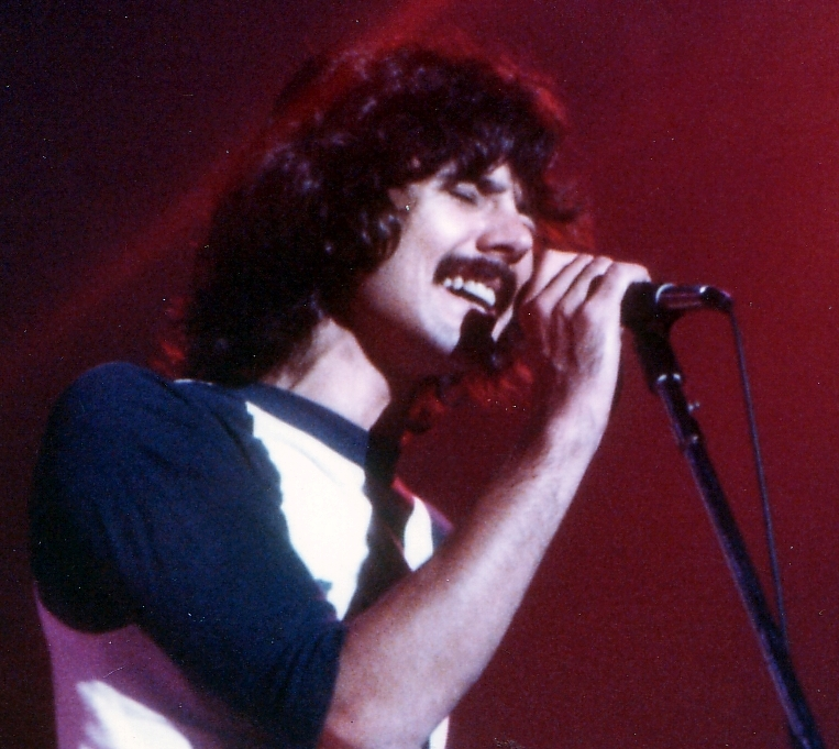 Mickey Thomas performing at the Coliseum in New Haven, FL.